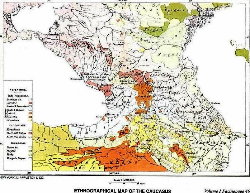 An 1891 Ethnographical map of the Caucasus